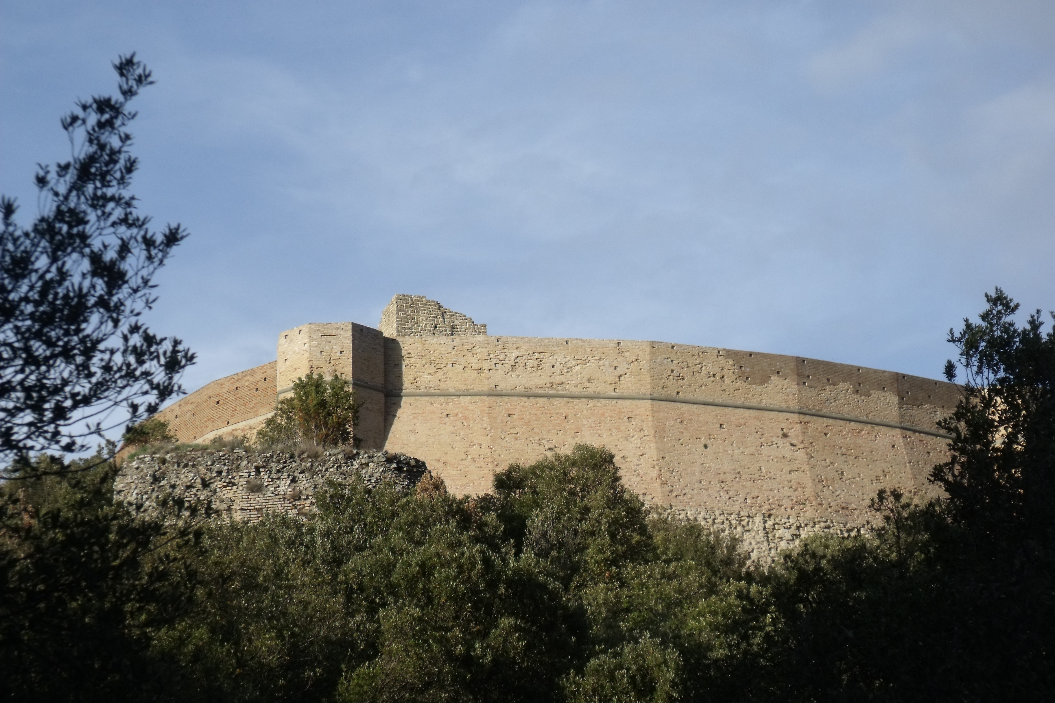 Castle Rocca Sillana (Sillano, Silano), Pomarance, Province of Pisa, Tuscany, Italy